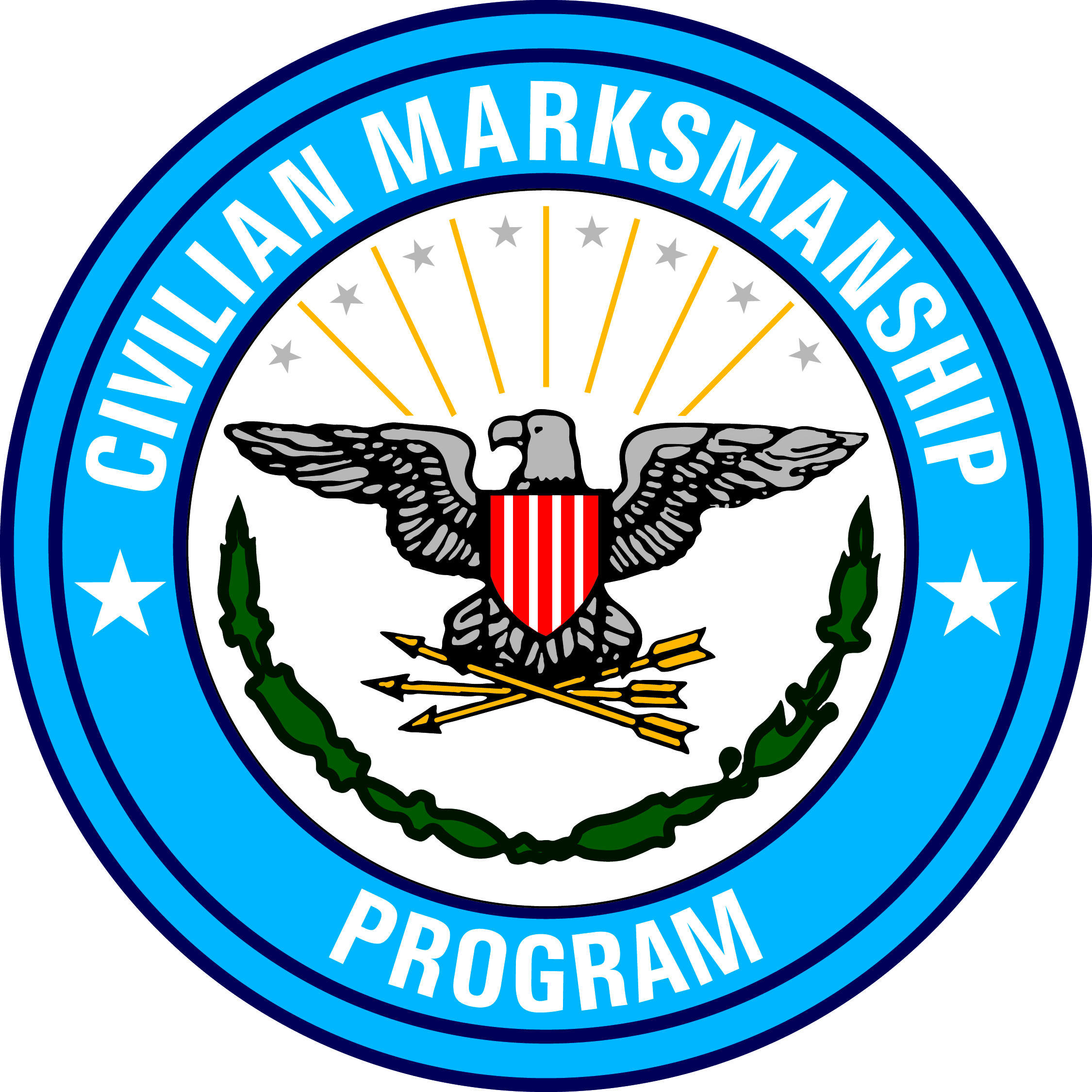 Official U.S. Government seal of the Civilian Marksmanship Program